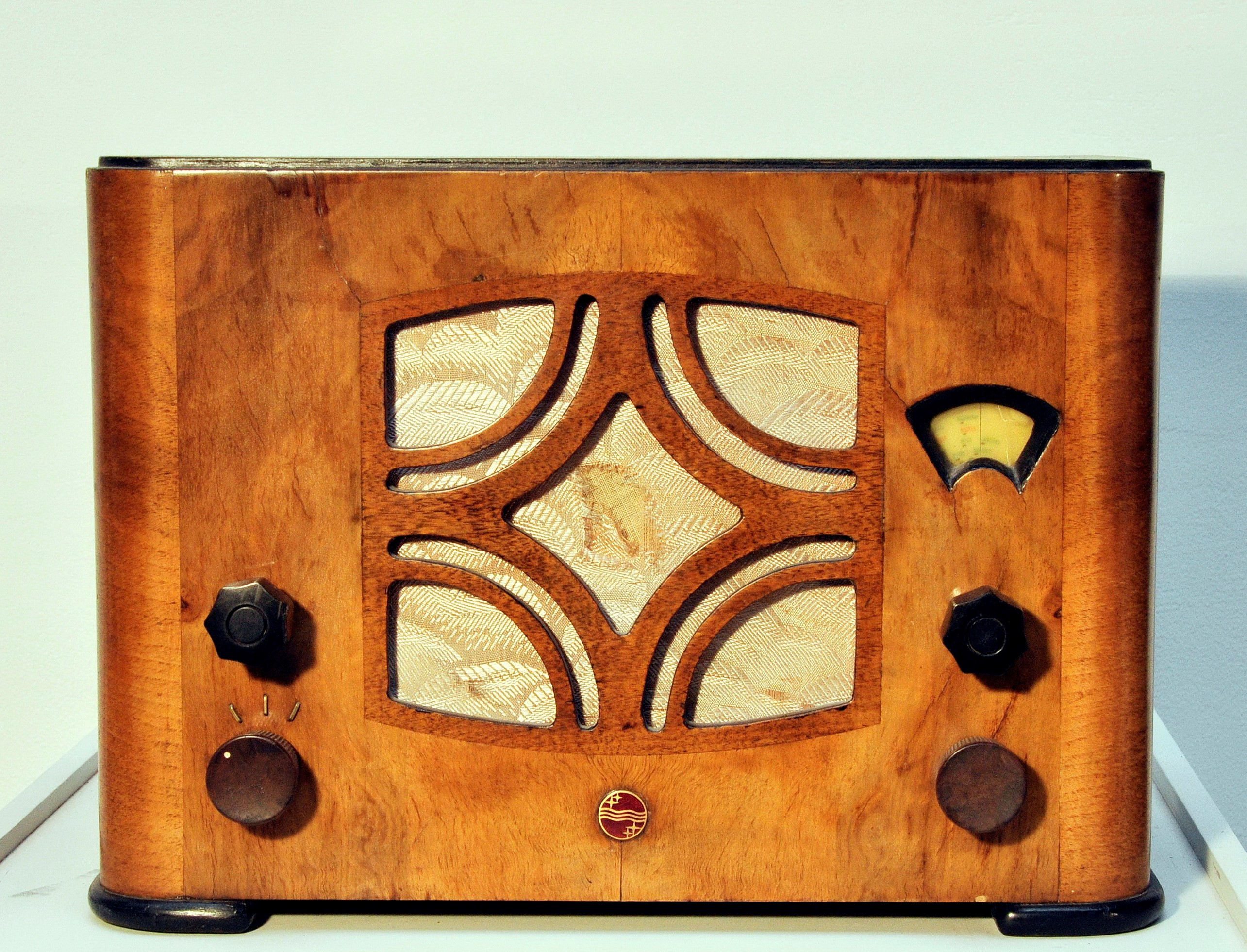 Radio receiver Philips 944 - 19. Now it is part of collection in Museum of Science and Technology Belgrade.